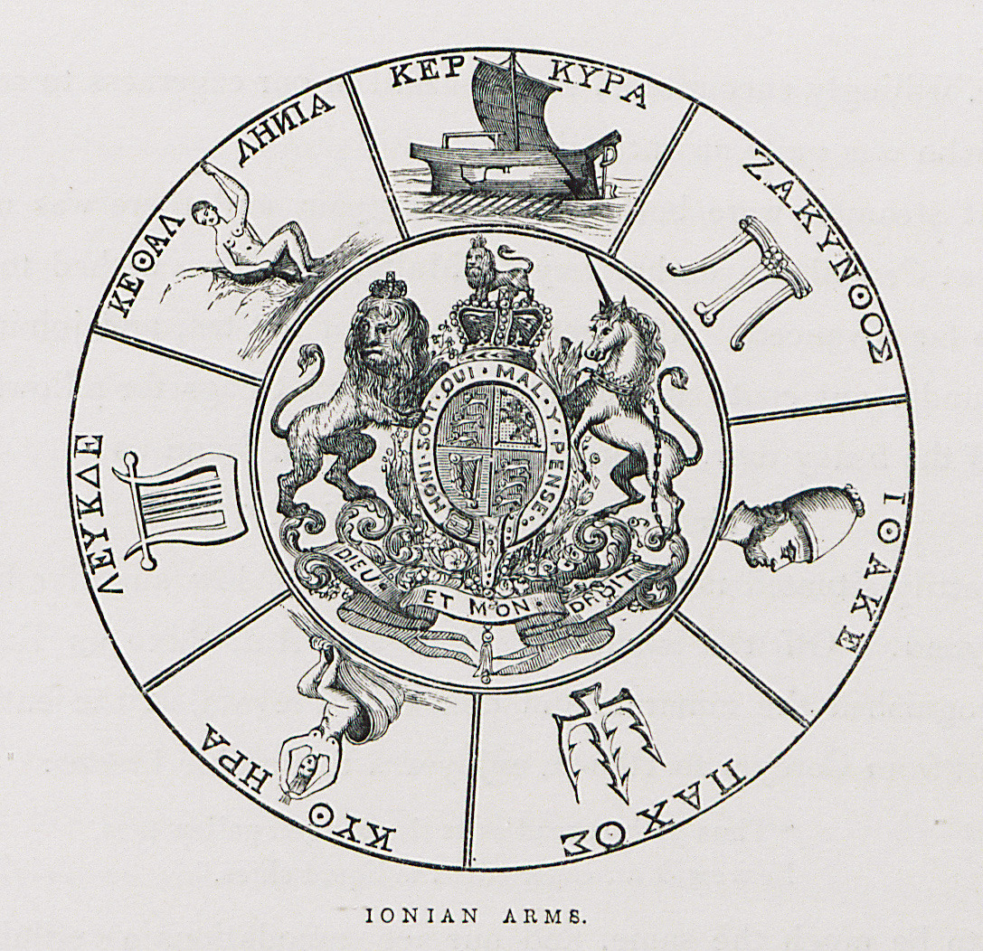 British coat of arms surrounded by the emblems of the seven Ionian Islands comprising the British amical protectorate of the United States of the Ionian Islands. From top, clockwise: Corfu, Zakynthos, Ithaca, Paxoi, Cythera, Leucas, Cephalonia